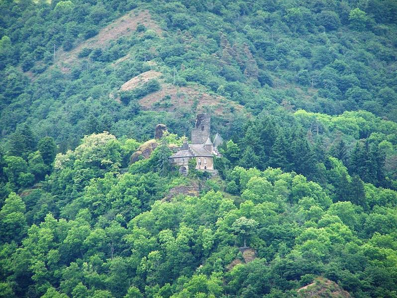 Castle Falkenstein at Falkenstein-Waldhof in Germany, taken from the other side of the Our in Luxemburg (Bivels).